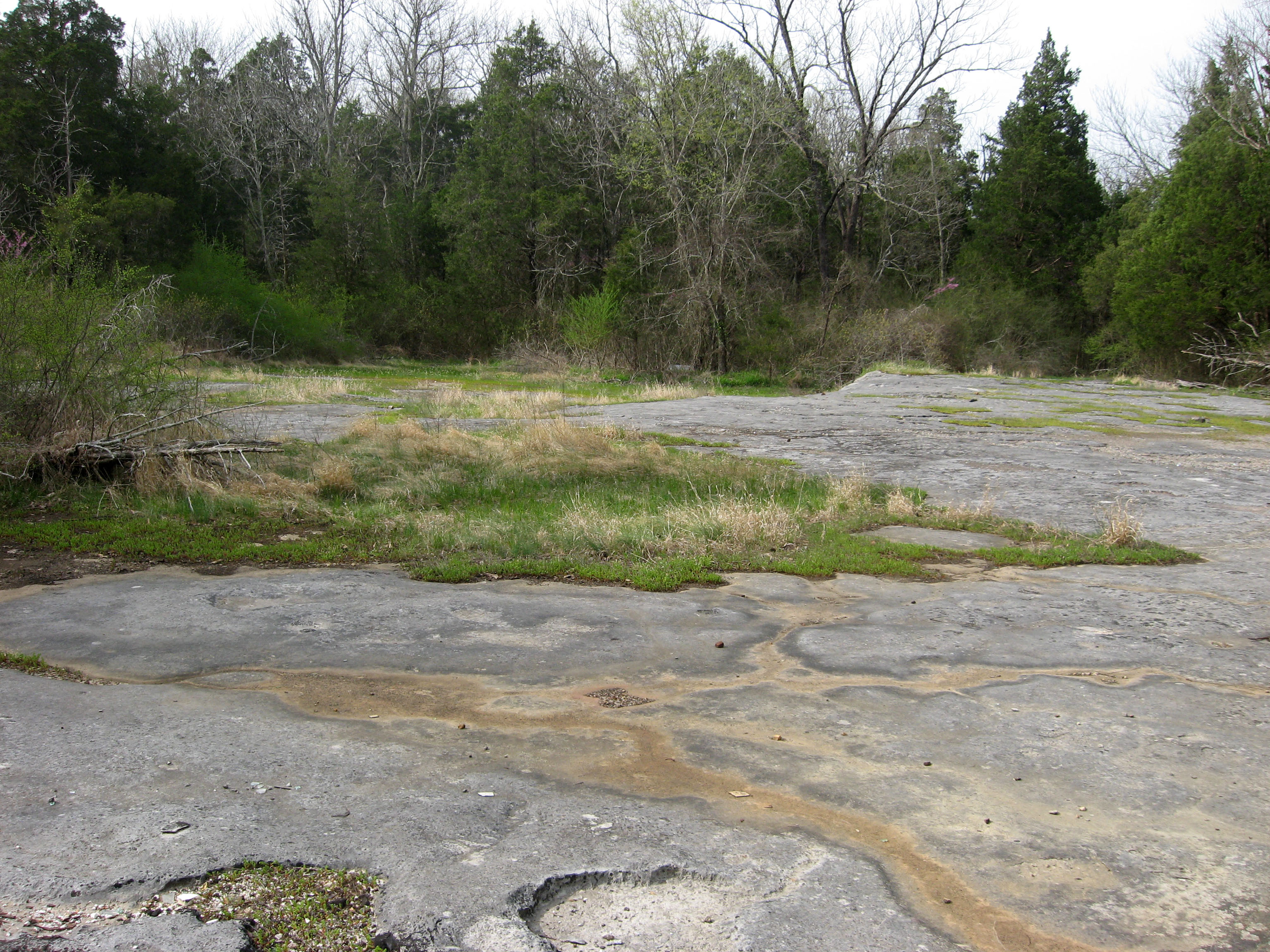 Cedar glade in the Pennyroyal Plain ecoregion, Simpson County, Kentucky.